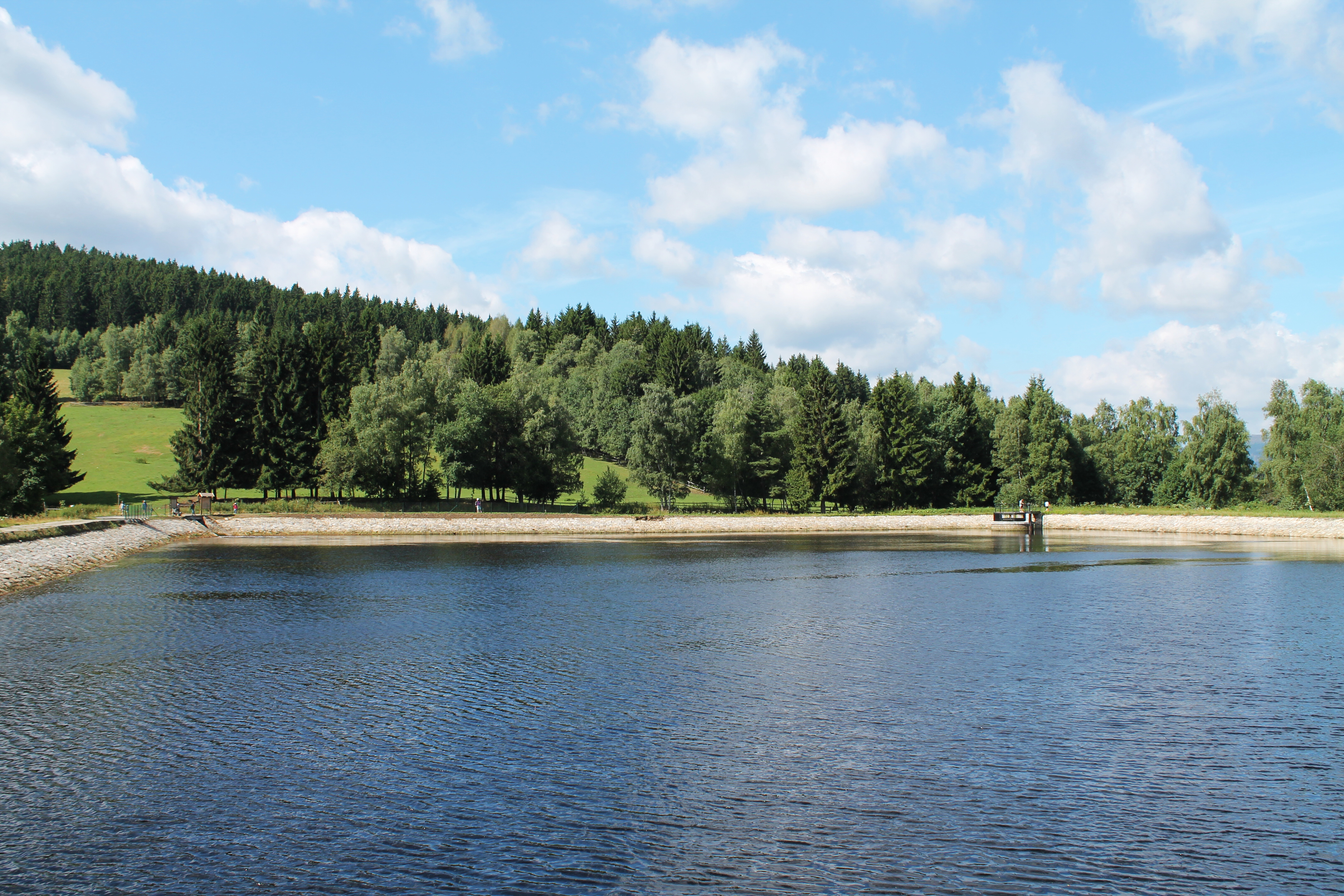 Water reservoir of Vydra hydroelectric power station, Srní, Klatovy District, Czech Republic - Google Maps - Google Earth